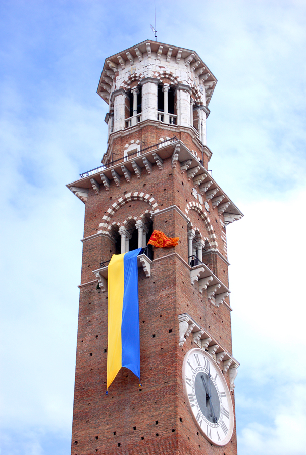 Bicolor blue and yellow banner hanging from tower in Verona in honor of 1797 revolt.